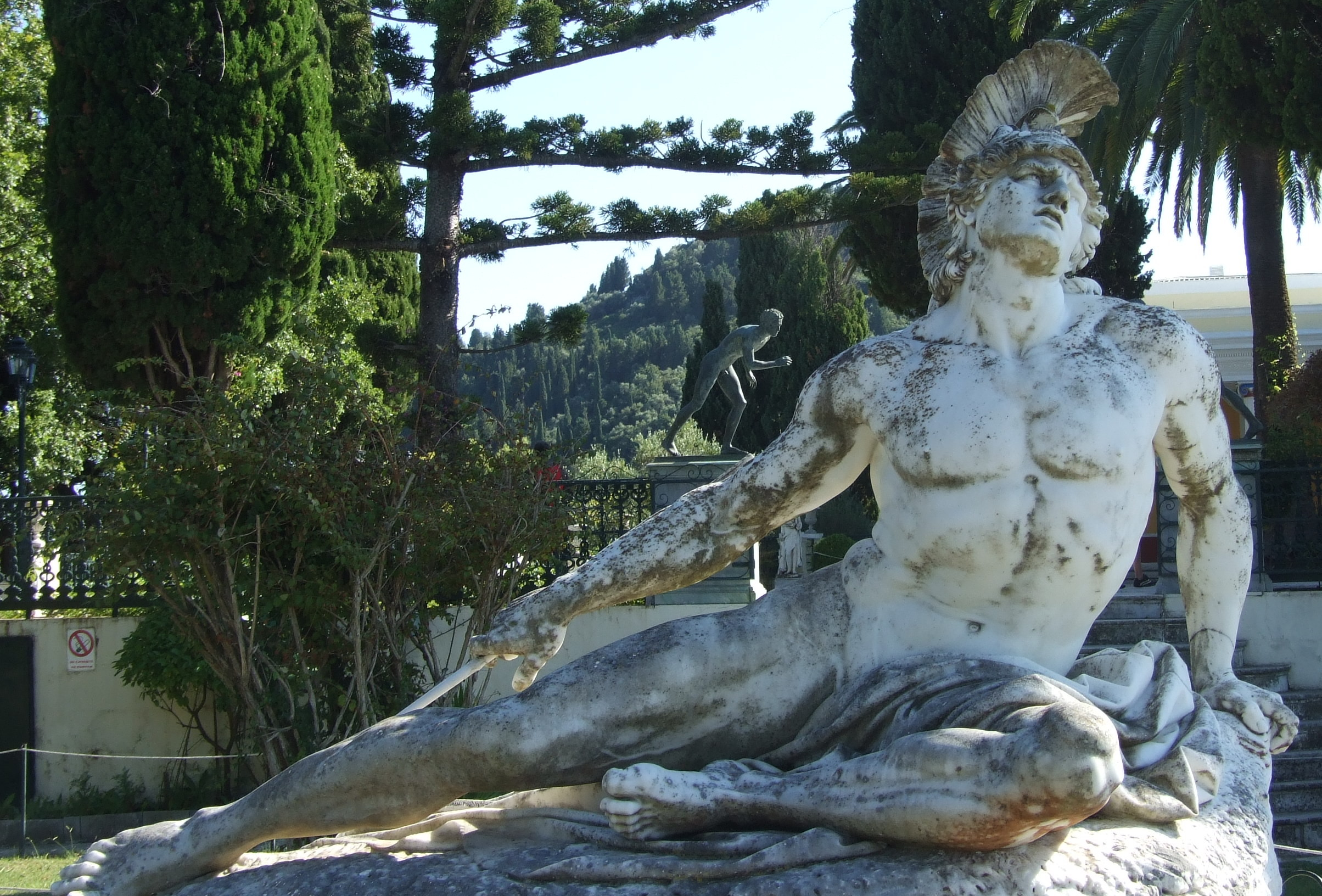 Photograph of the statue of Death of Achilles. Taken in the Achilleion Gardens, Corfu